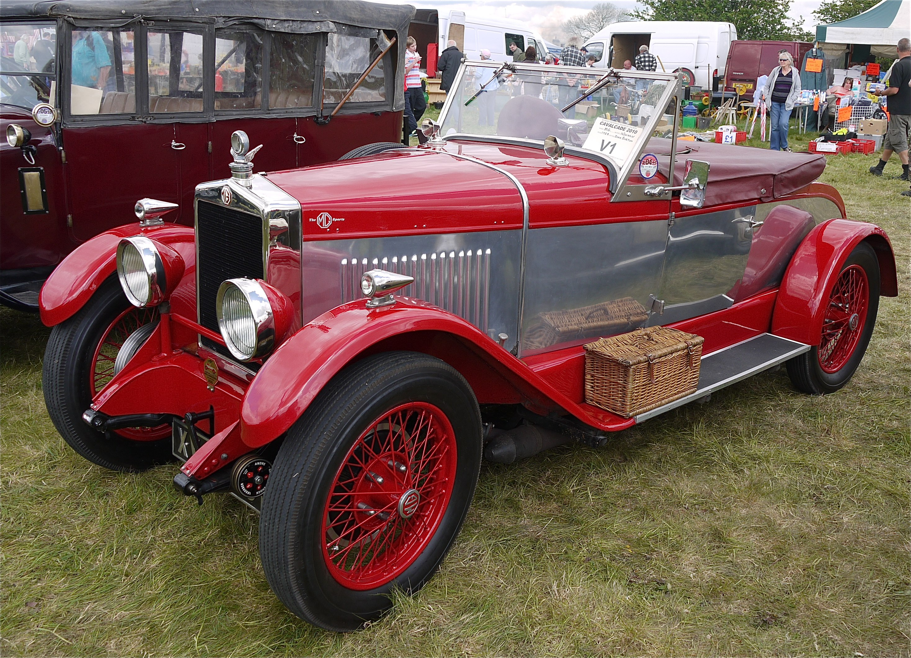 Panasonic 14-45 Lens XV 9508 – 1928 MG 14-40 "There is no early history of this motorcar. The earliest known owner was R Reynell of Saxmundham in Suffolk, who owned the car for 14 years. The motorcar appeared for sale at a Beaulieu auction in the 1970s but did not sell. J Stoneman of Ely brought the motorcar in 1979 selling it on to C Mallett of Saxmundham. Cyril Mellor purchased the car on the 2nd August 1987 keeping it for 16 years before selling to the present owner." The MG Car Club Vintage Register